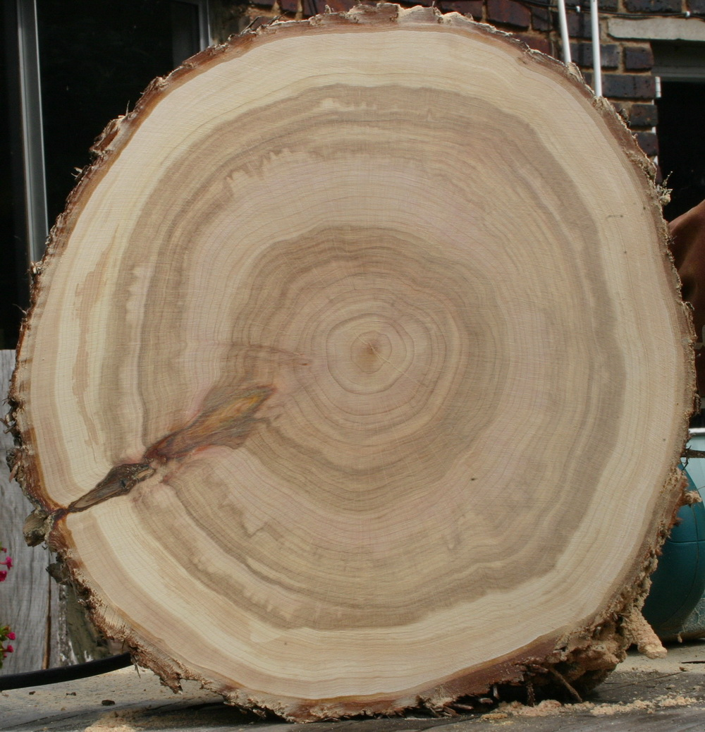 Cupressus lusitanica Mill., section of trunk - cultivated tree in Gauteng, South Africa